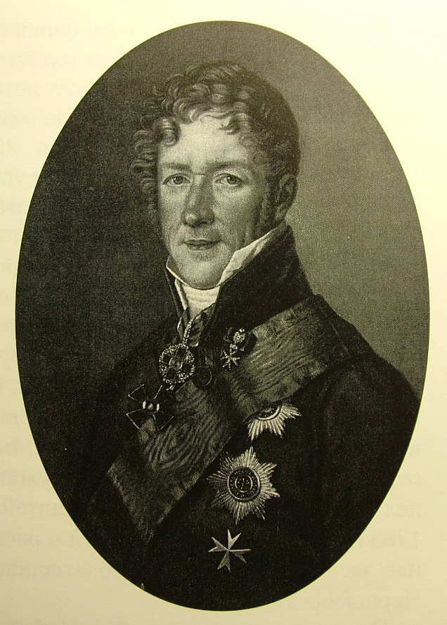 Kampengausen Baltasar Baltasarovitsch - Ministr of Kontrol of Russia, Baron